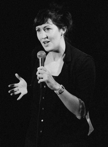 Australian Comedienne Celia Pacquola, at Not Safe For Work Presented by Comedy Central Produced by CleftClips Photography by Mandee Johnson / The Del Monte Speakeasy at Townhouse Venice - Los Angeles, CA May 7, 2013